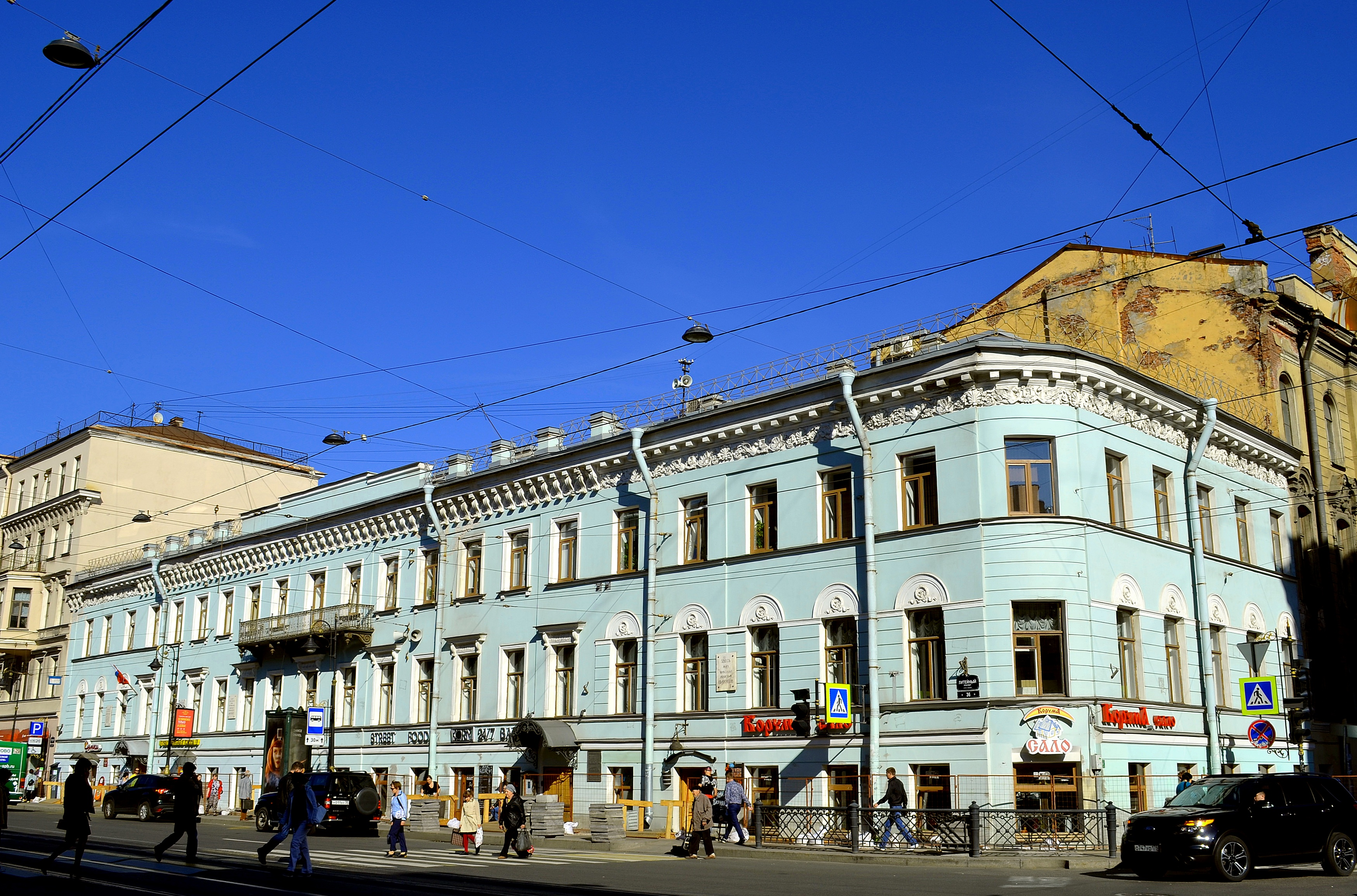 House where lived: in 1858-1859 - the literary critic Dobrolyubov NA, in 1857-1877 - the poet N. Nekrasov, in 1850 - the surgeon N. Pirogov, in 1857-1862 - the writer Panayev I., were redactions of magazines Otechestvennye memos and contemporary of: Liteyny Prospect, 36 street Nekrasov, 2, Central District, St. Petersburg.